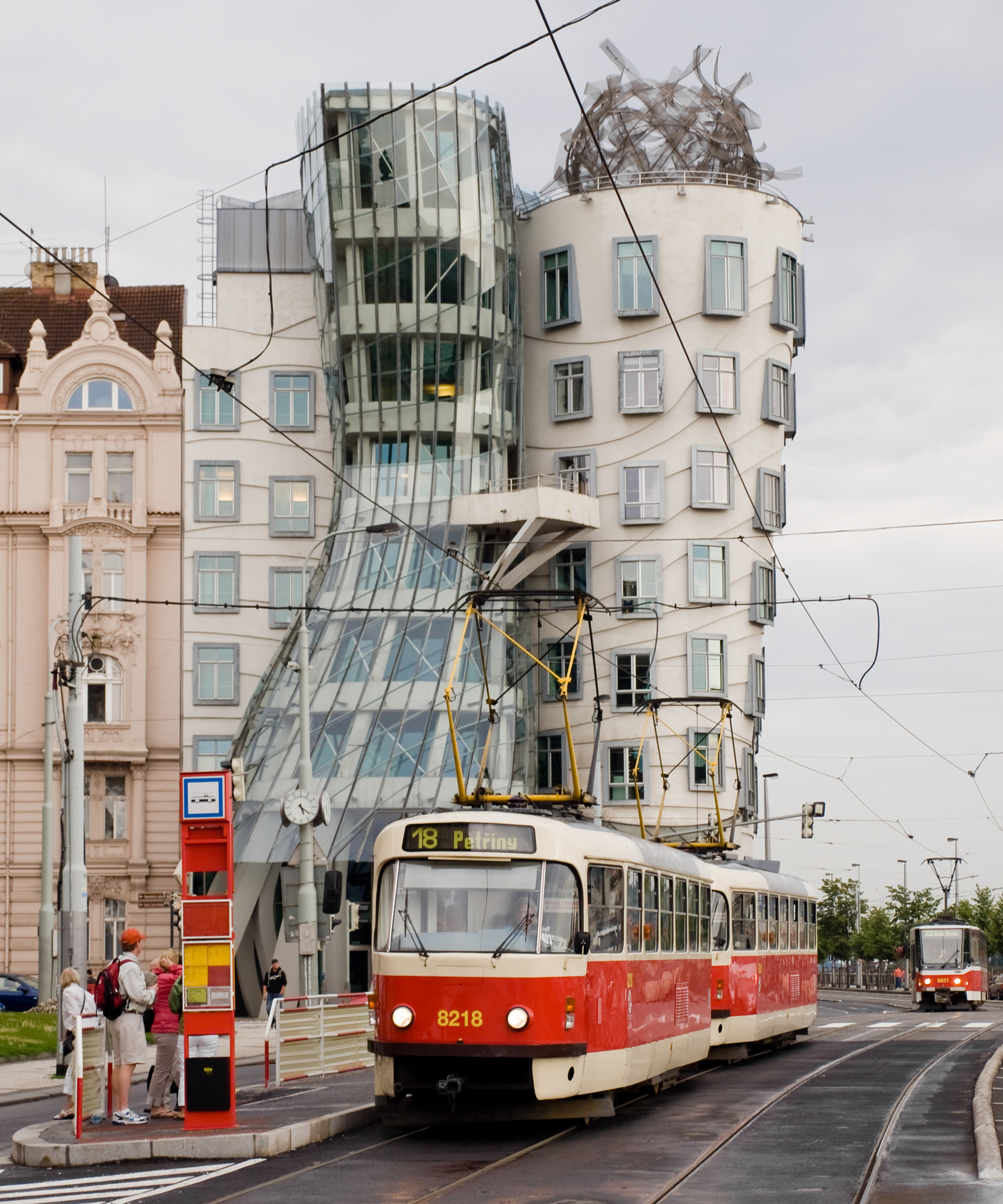 Tatra T3R.P (8218+8219) and Tatra T6A5 (8621+8622) in Jiráskovo náměstí tram stop with Dancing house in background, Prague